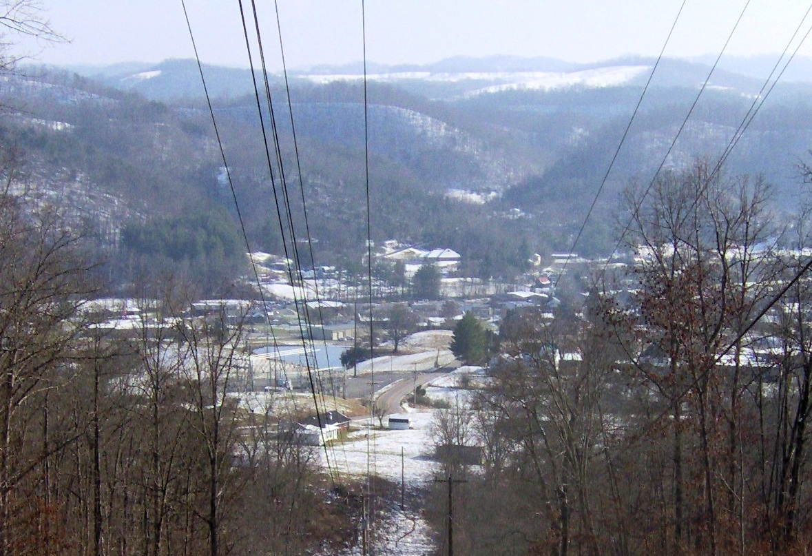 View south from the slopes of Newmans Ridge in Hancock County, Tennessee, USA. Sneedville is below.